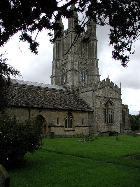 Cricklade St Sampson, Wiltshire. One of England's most unusual church towers.